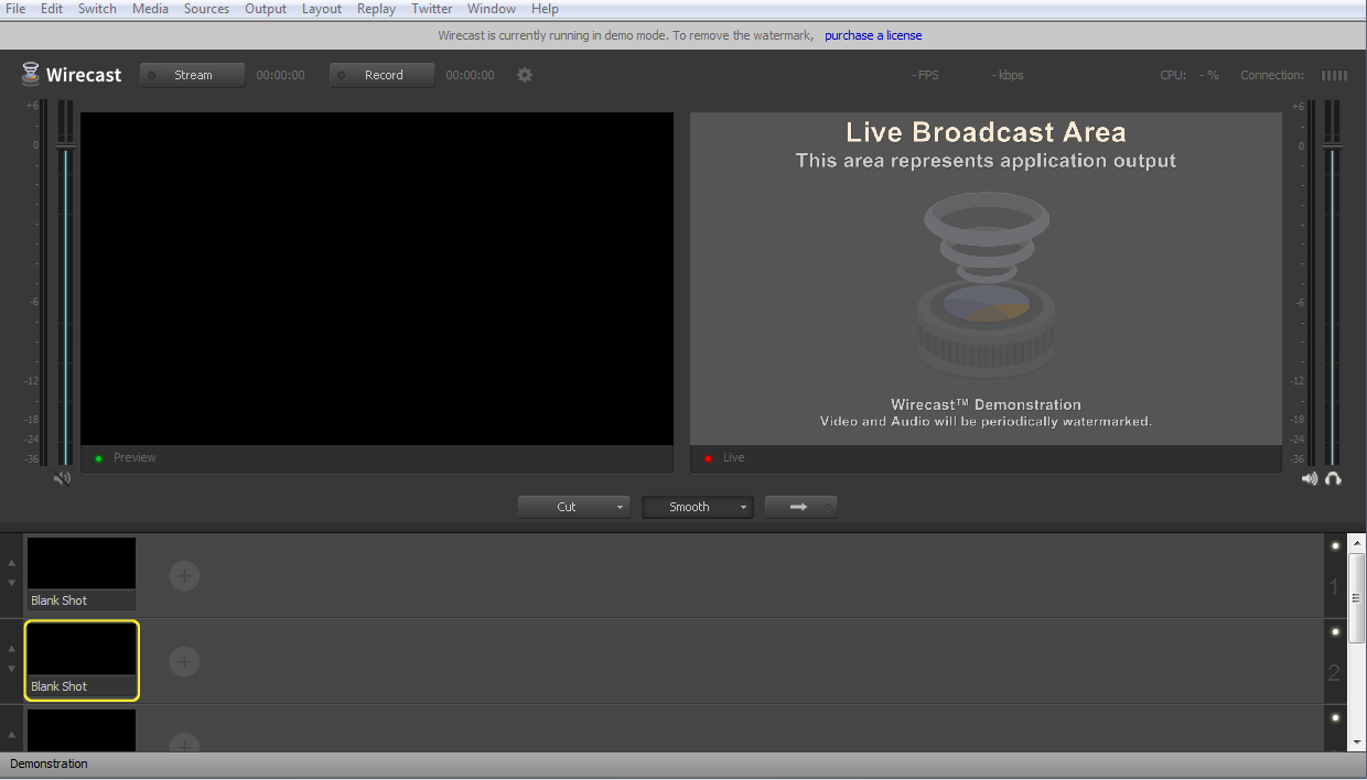 Self taken screenshot